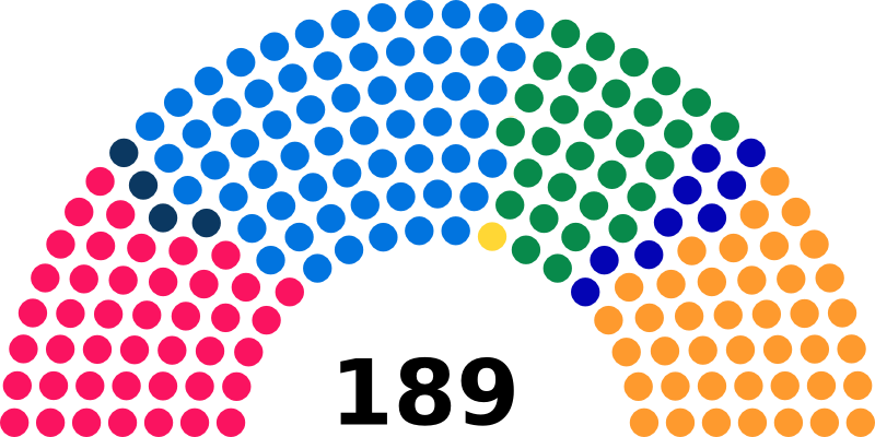 Seats diagramme of Swiss National Council (1919)